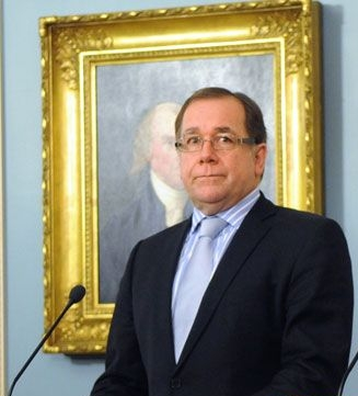 Murray McCully, a New Zealand Foreign Minister.